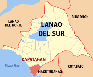 Map of the Lanao del Sur showing the location of Kapatagan